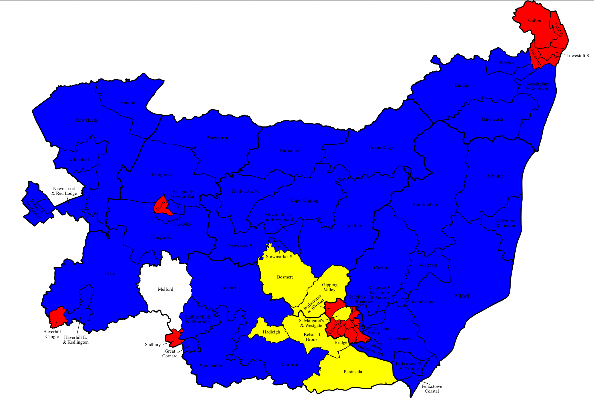 A map of the results of the 2007 Tunbridge Wells Council election. Colour legend by wards